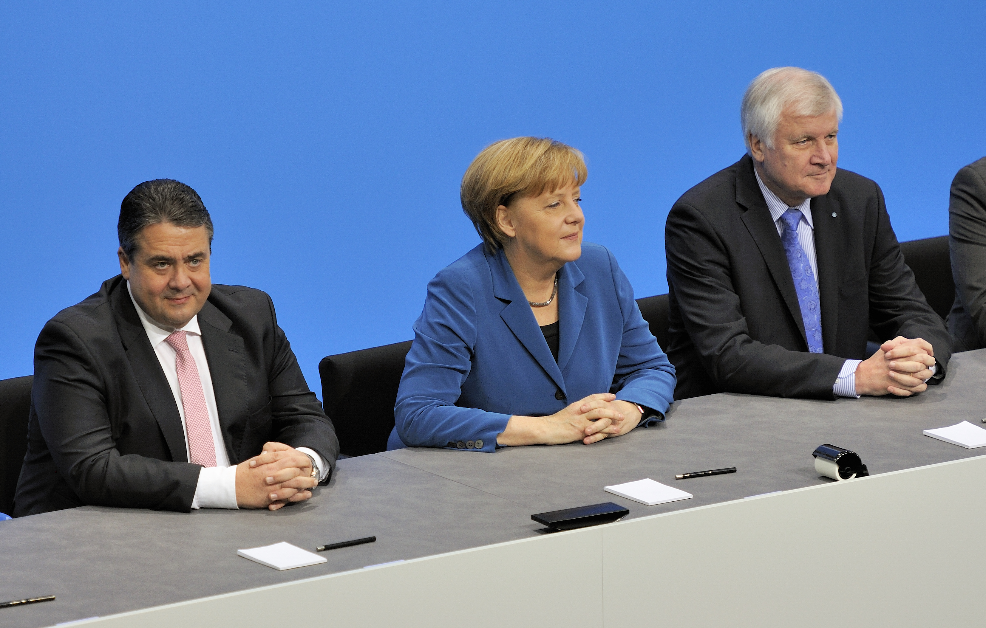 Signing of the coalition agreement for the 18th election period of the Bundestag. Sigmar Gabriel, Angela Merkel, Horst Seehofer.